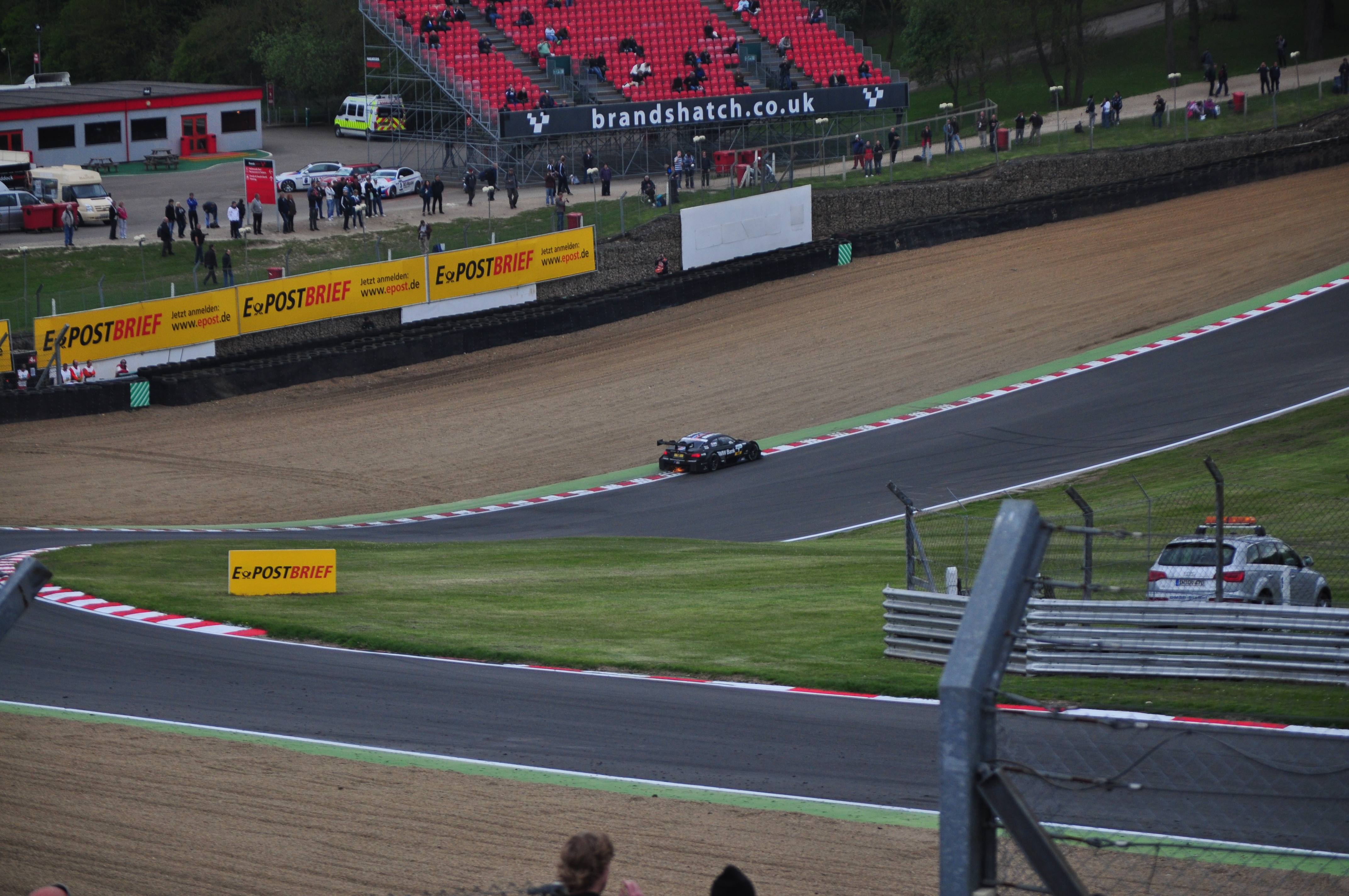 first corner at Brands Hatch.